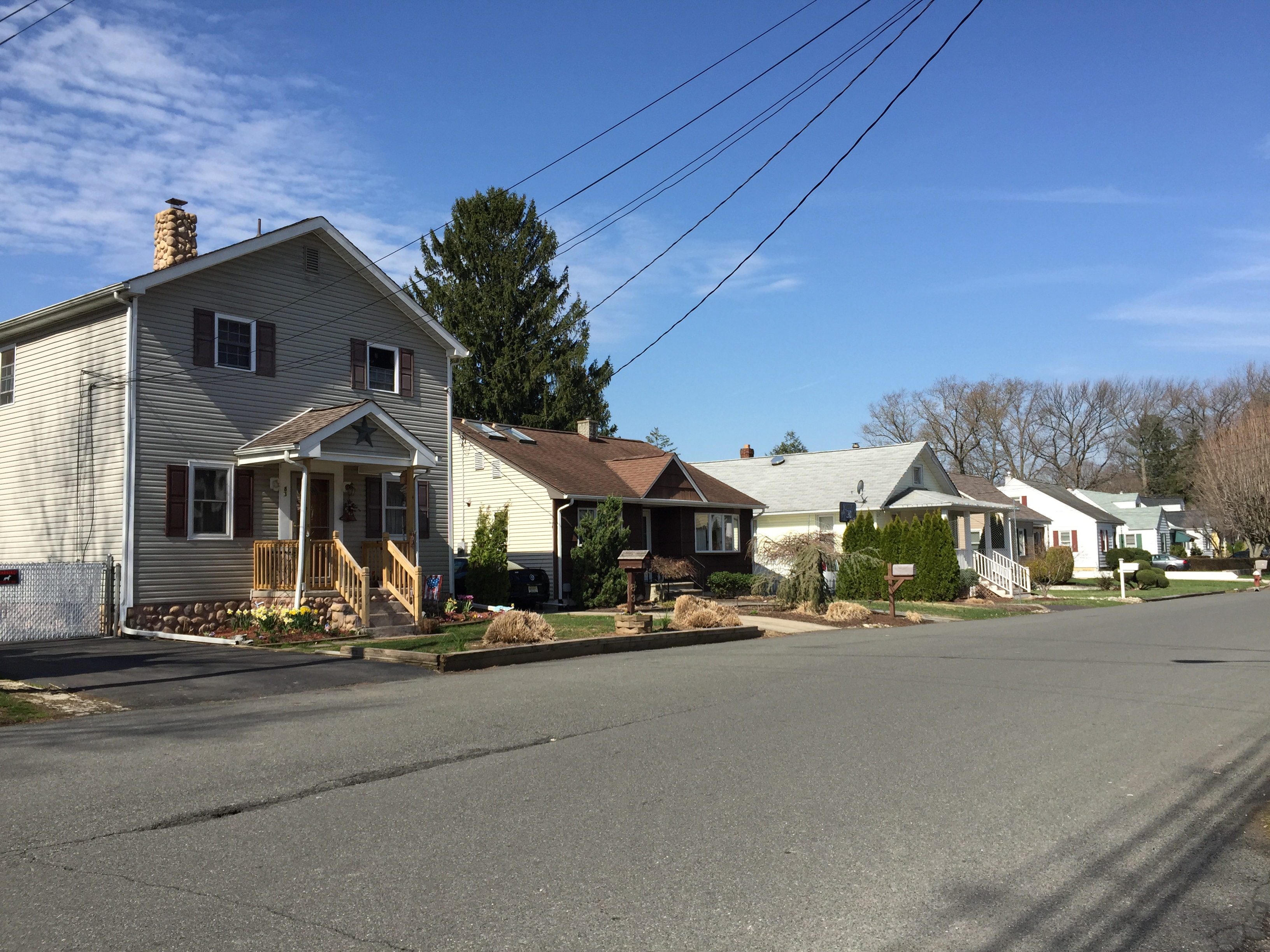 Homes along Groveland Avenue in the Braeburn Heights section of Ewing, New Jersey